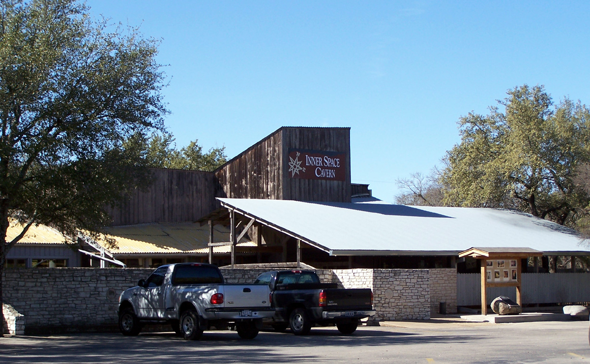 Inner Space Cavern — in Georgetown, Texas Hill Country, Central Texas, United States.